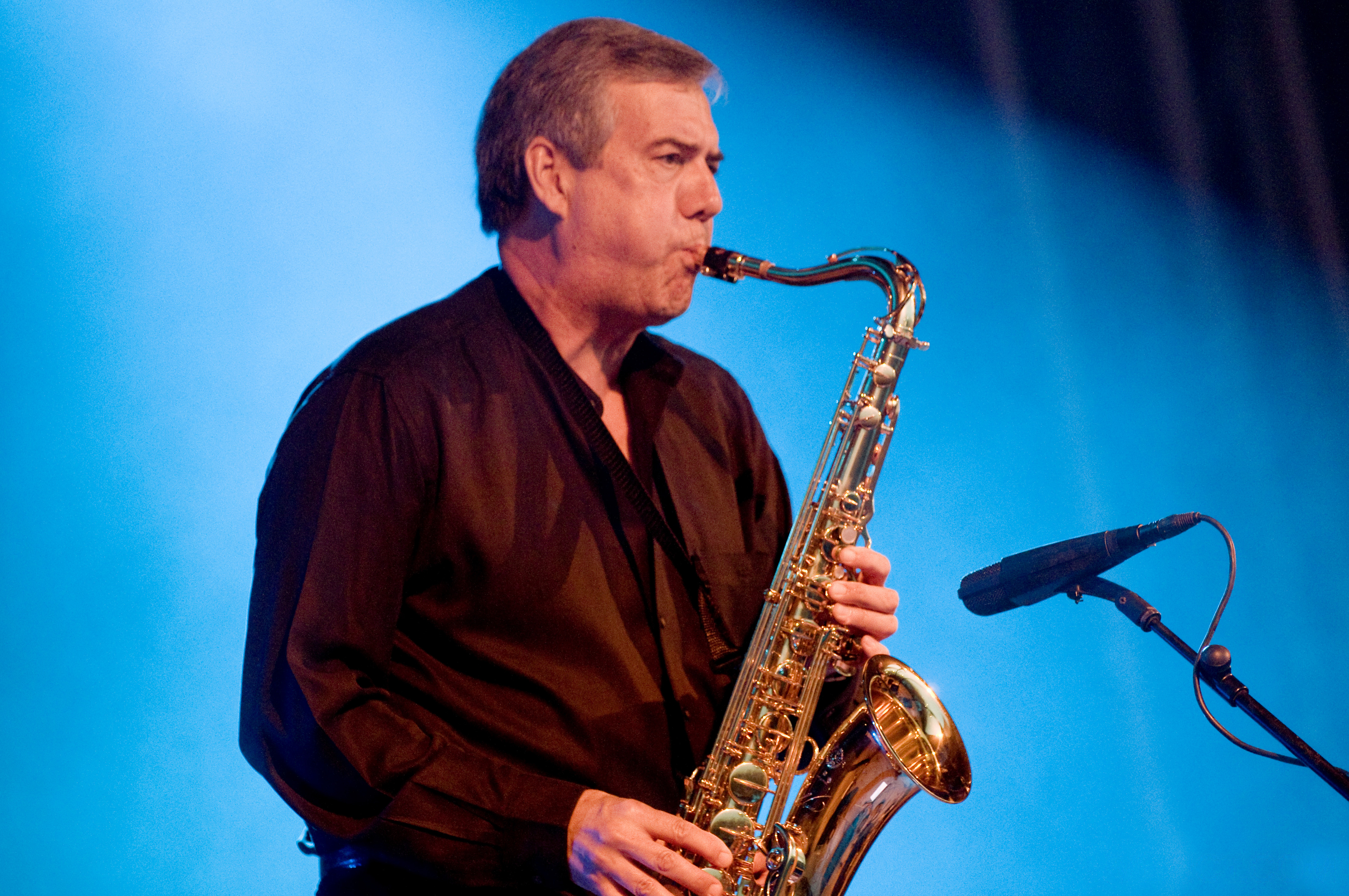 The Sonics